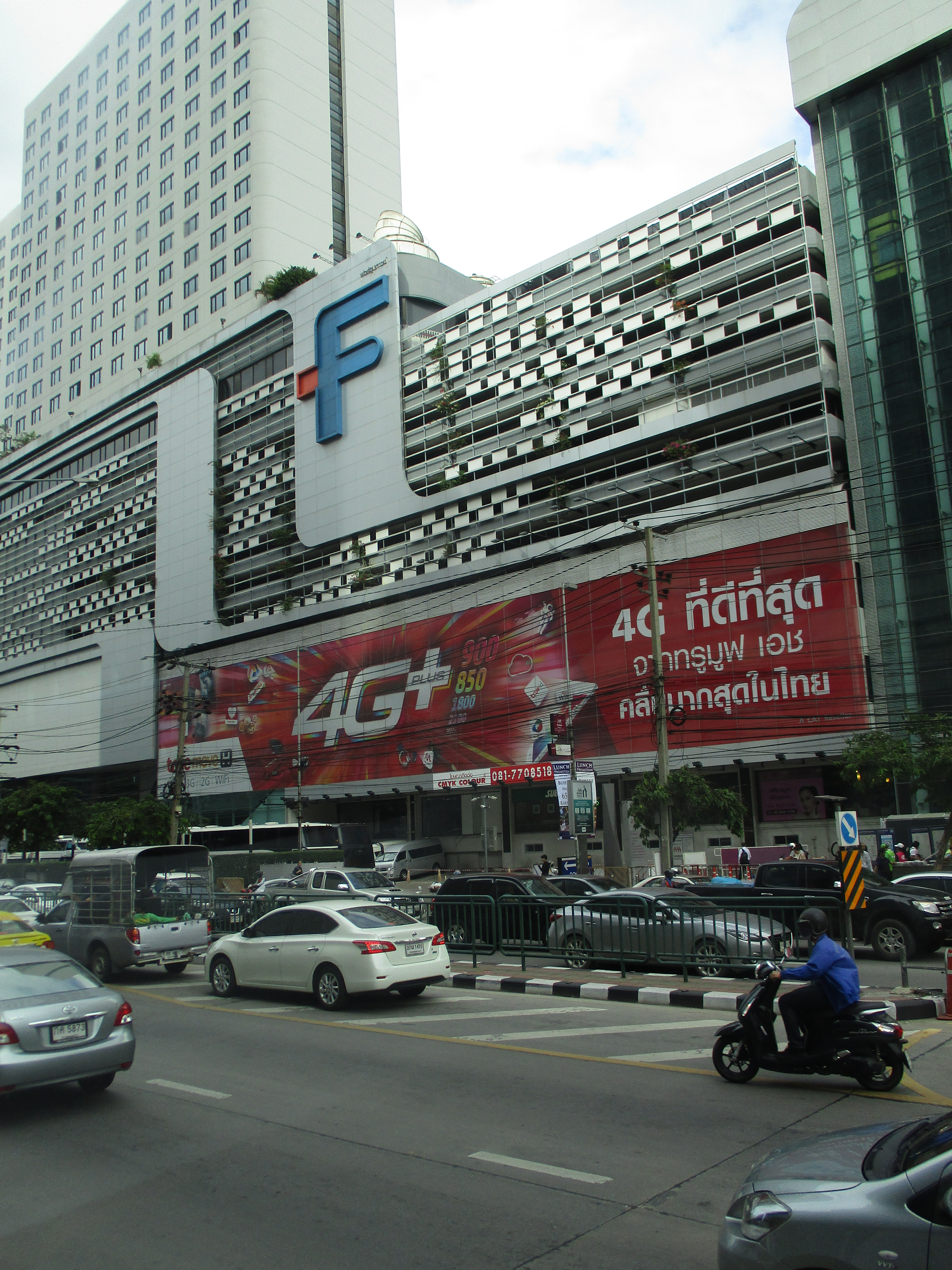 Bangkok street scenery